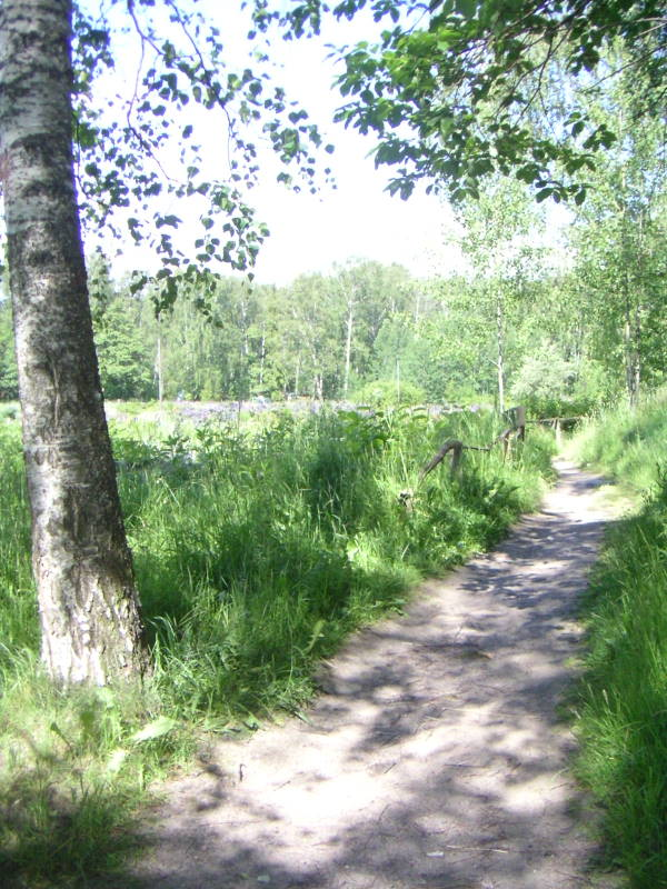 A path in Kivinokka